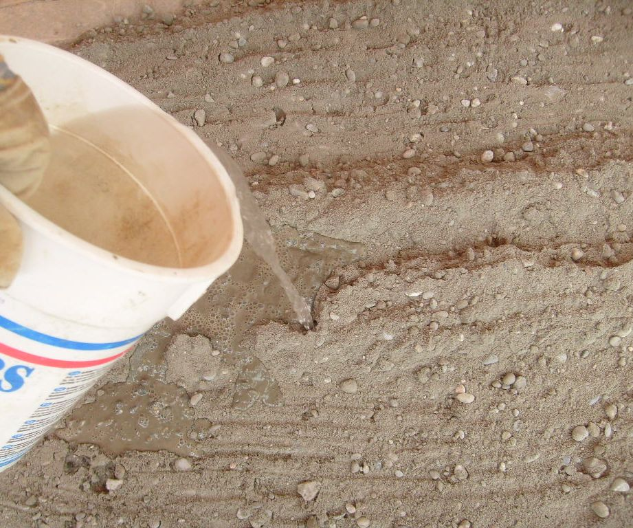 Concrete mixing by hand